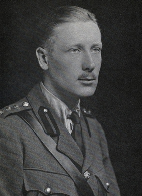 photograph of Gervas Huxley in army uniform, 1917.